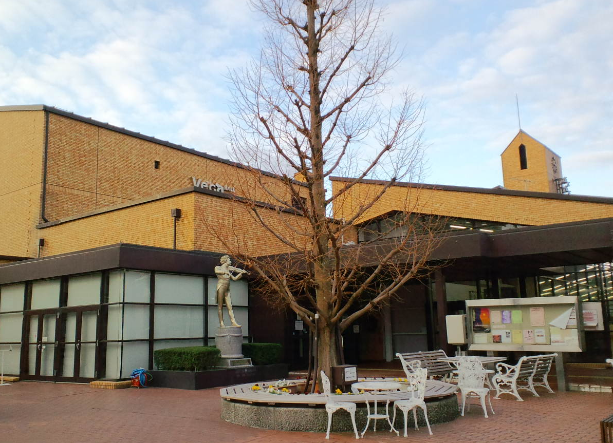 Vega hall (Concert hall) at Takarazuka, Hyōgo in Japan.